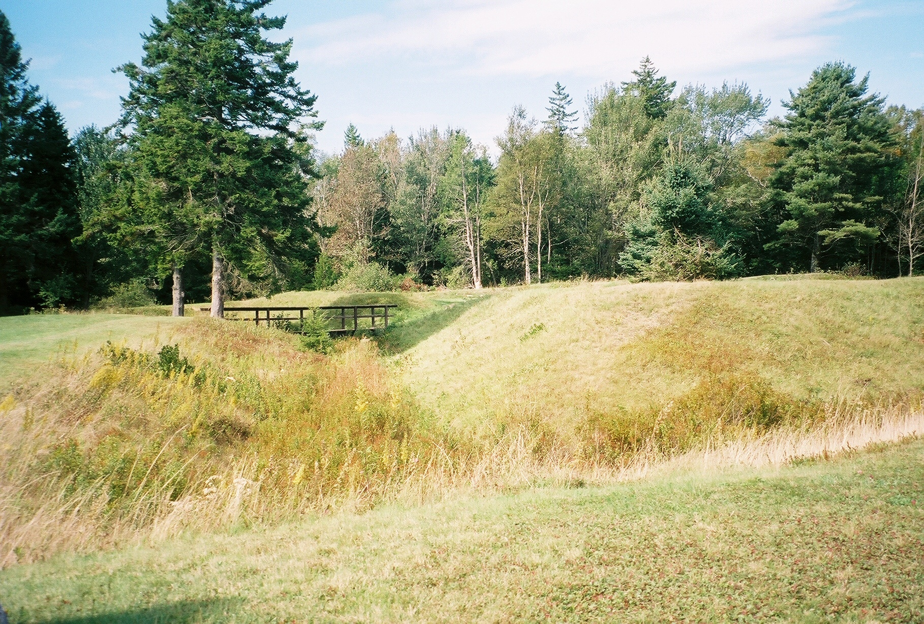 Fort Pownall, Fort Point State Park, Maine